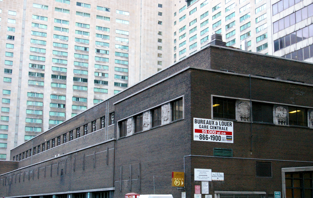 Exterior of Montreal's Central Station